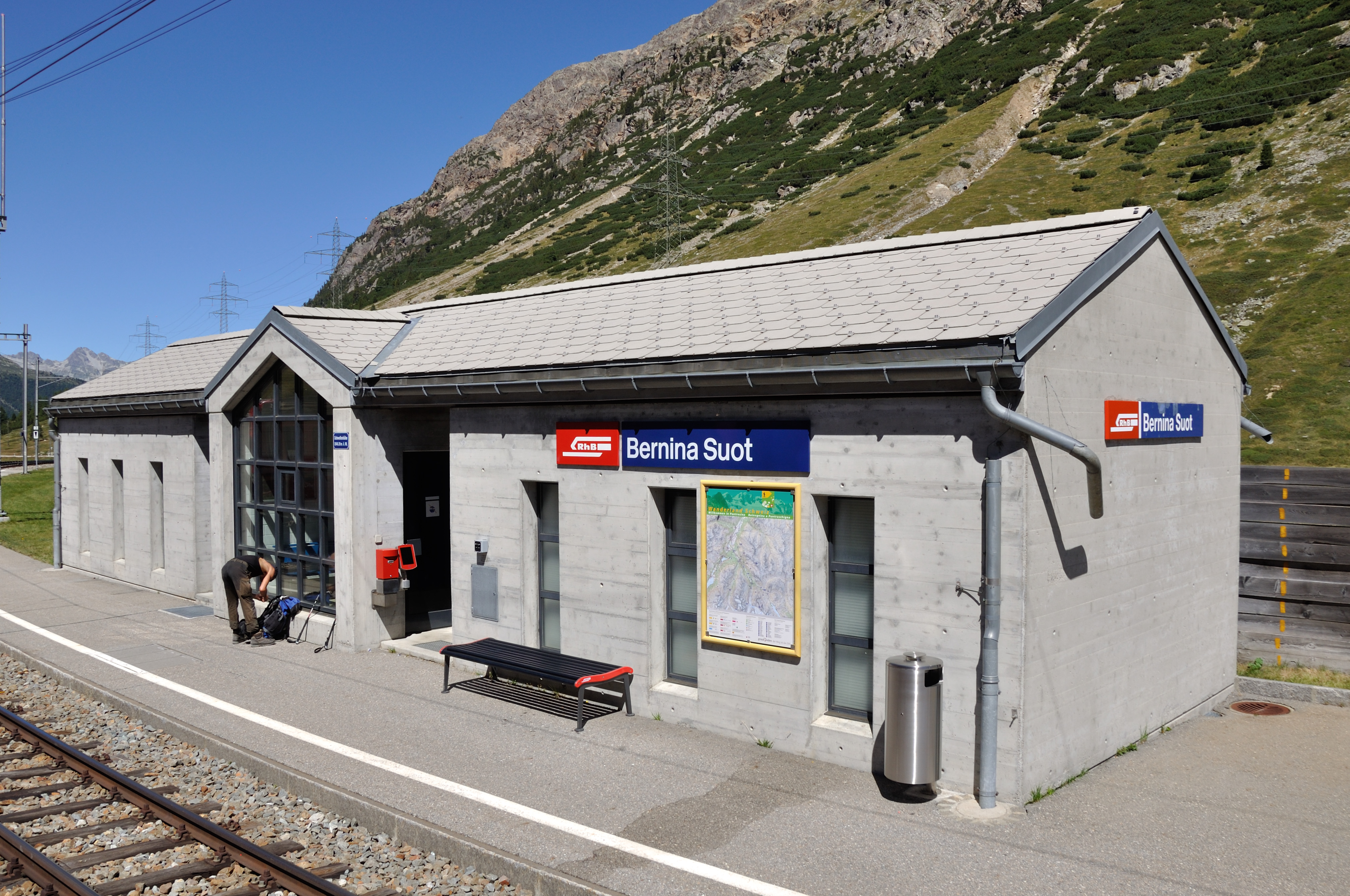 Switzerland, Graubünden, impressions on the Bernina line of the Rhaetian Railways between Samedan and Bernina Ospizio